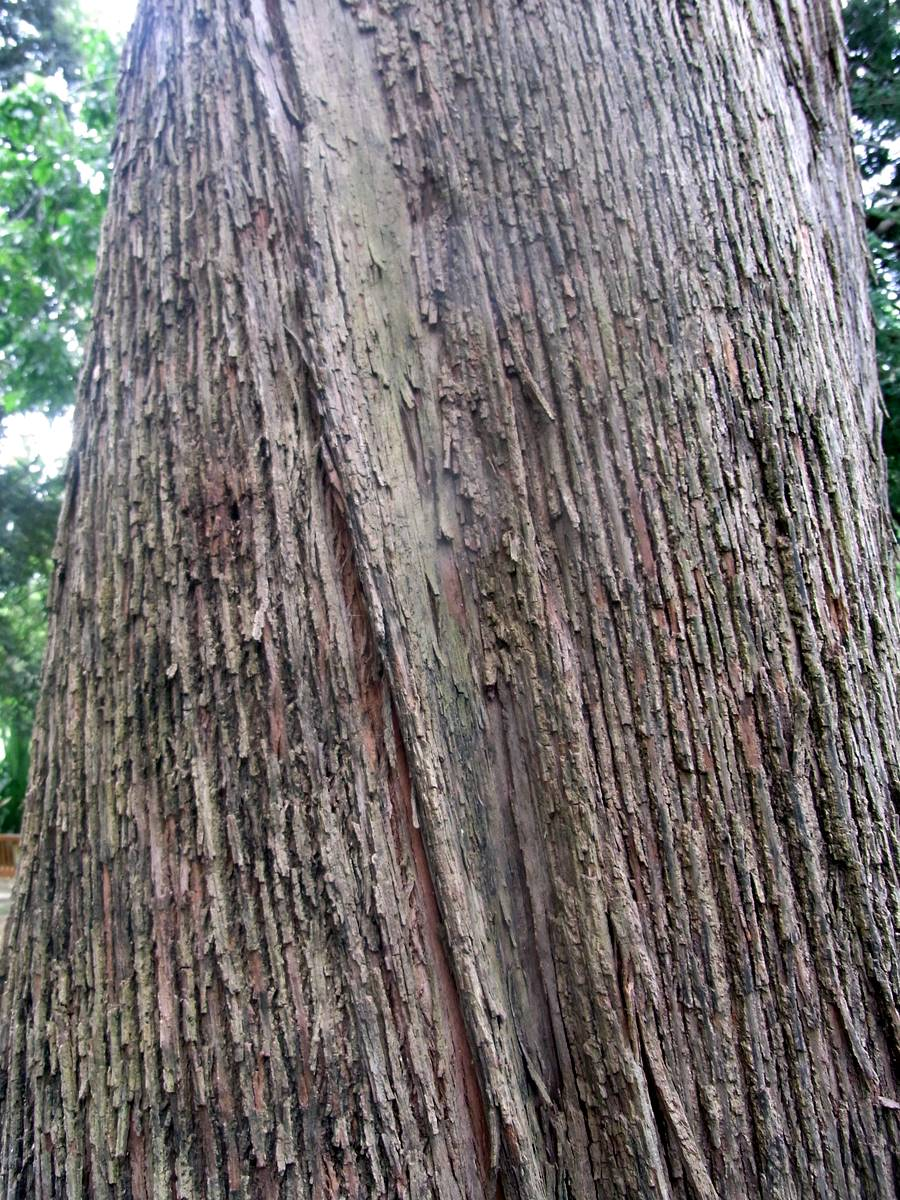 Eucalyptus siderophloia, labeled at the Royal Botanic Gardens, Sydney